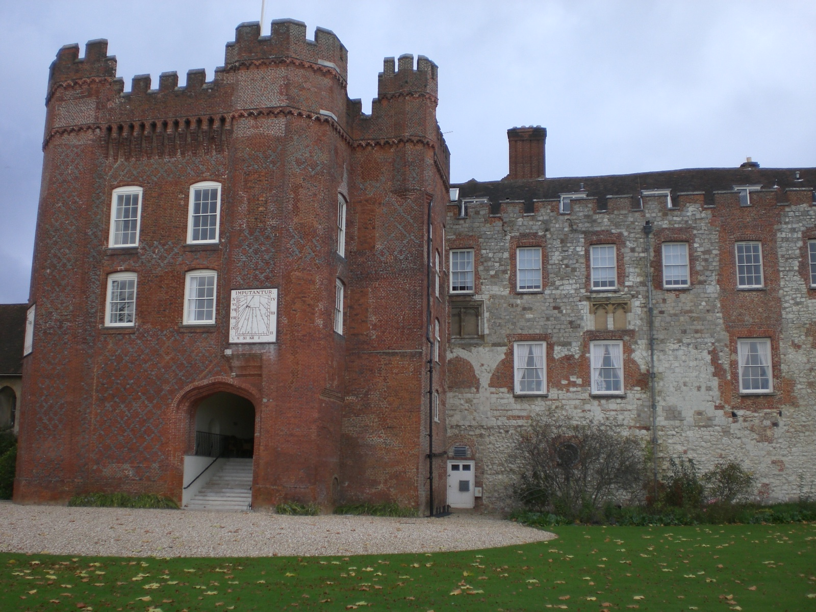 Photo of Facade of Bishop's Palace, Farnham Castle, Surrey